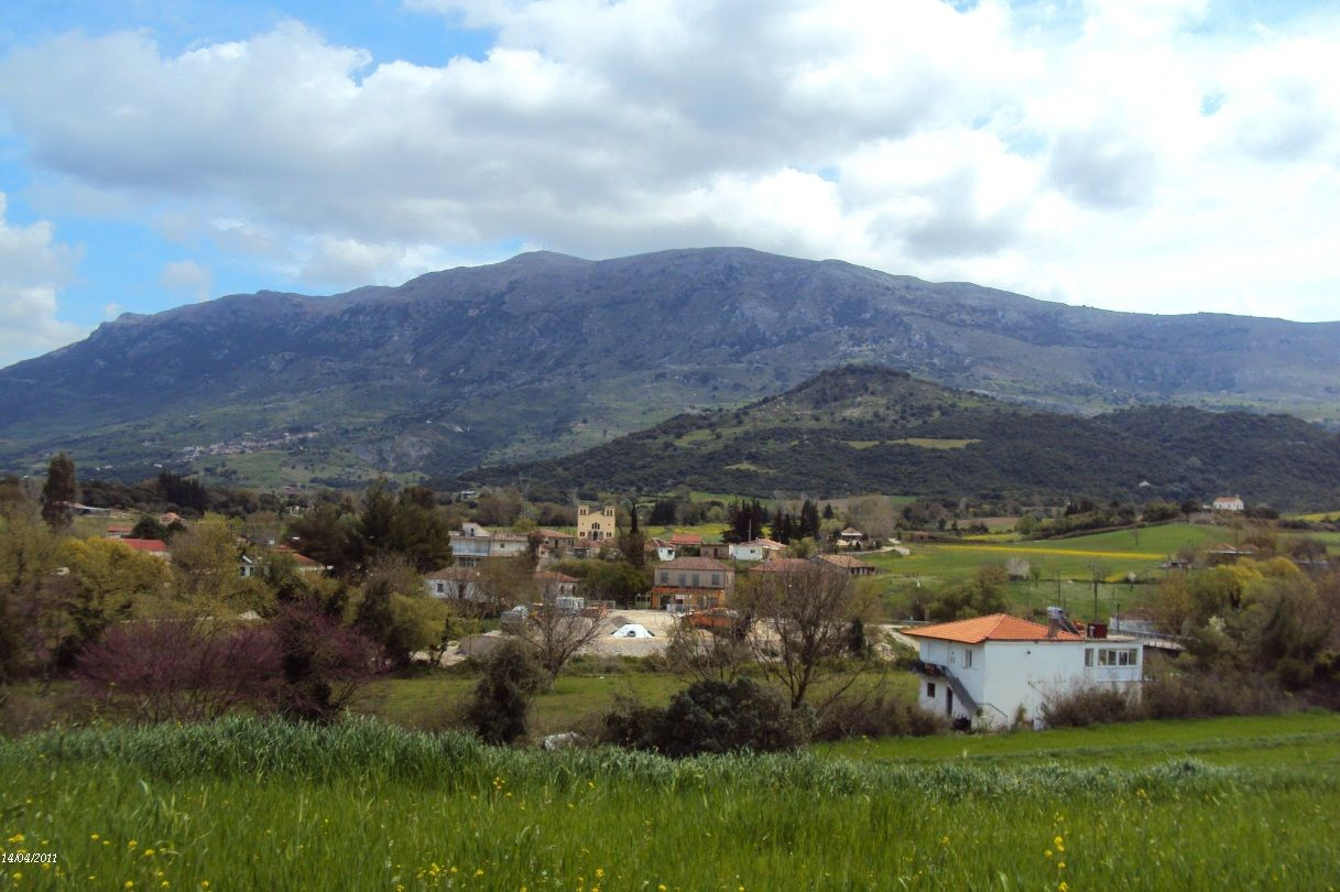 Partial view of Skiadouni Mt. in the background. In the foreground stands the Karpeta village, Achaia, Greece. In the second plan the hill Sgartsiko can be seen, while on the slopes of the Skiadovouni Mt., on the left side of the photo, stands the village of Skiadas.